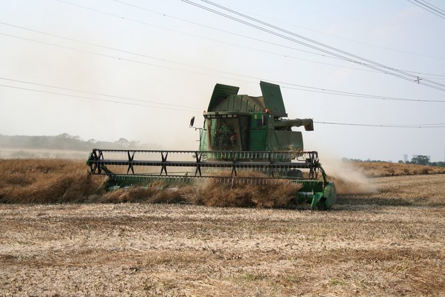 Laneham harvest. Harvesting oil seed rape by the power lines off Helenship Lane